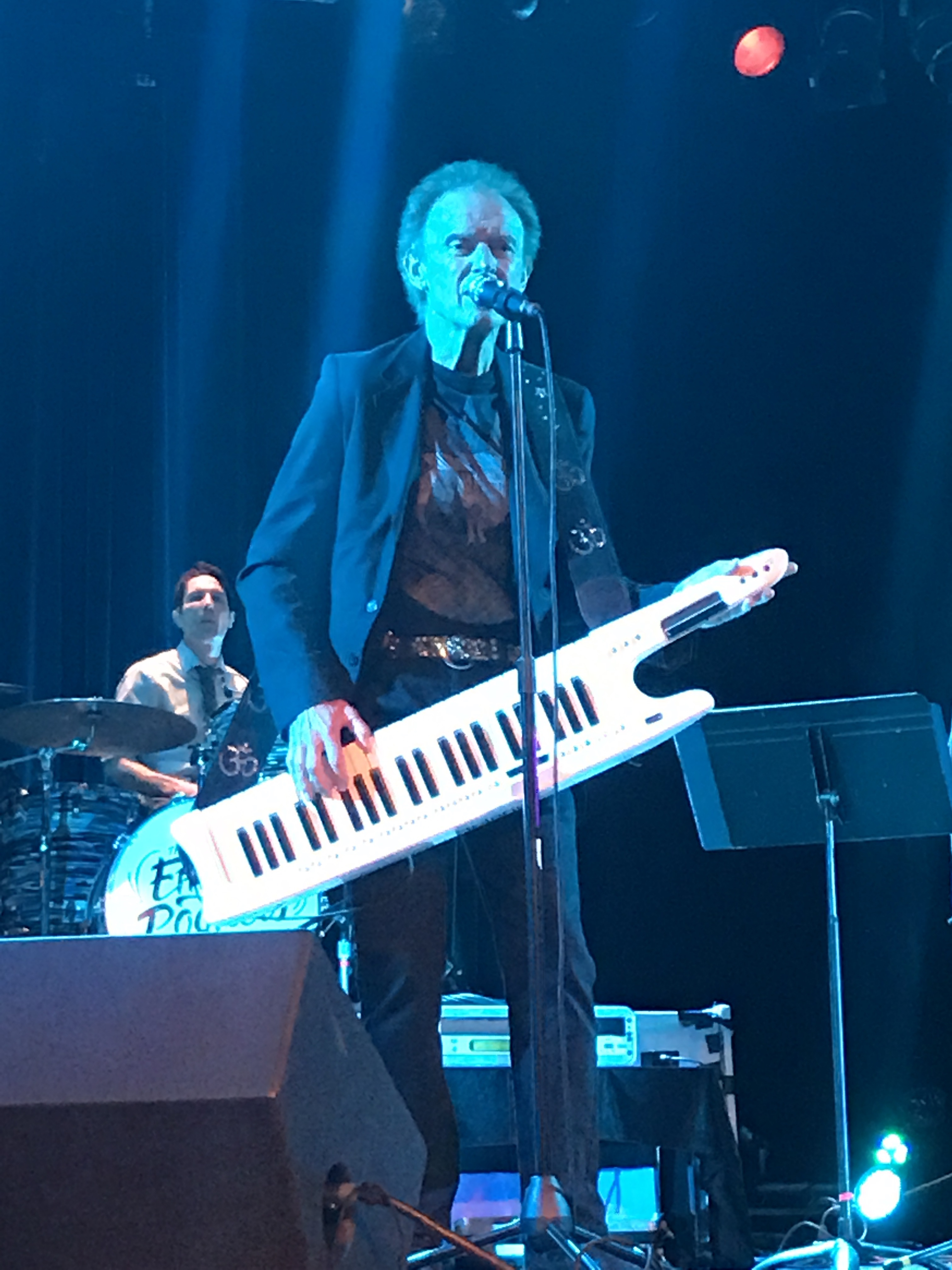 Gary Wright performing at the Everett Theater, Everett, WA USA, October 14th, 2016.